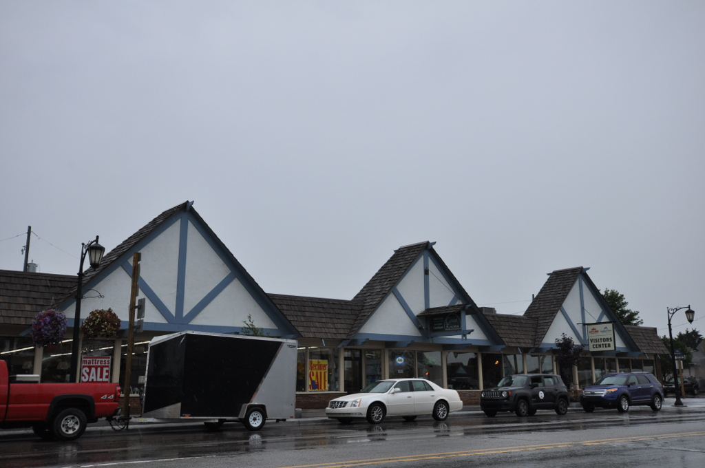 Downtown Gaylord, Michigan.